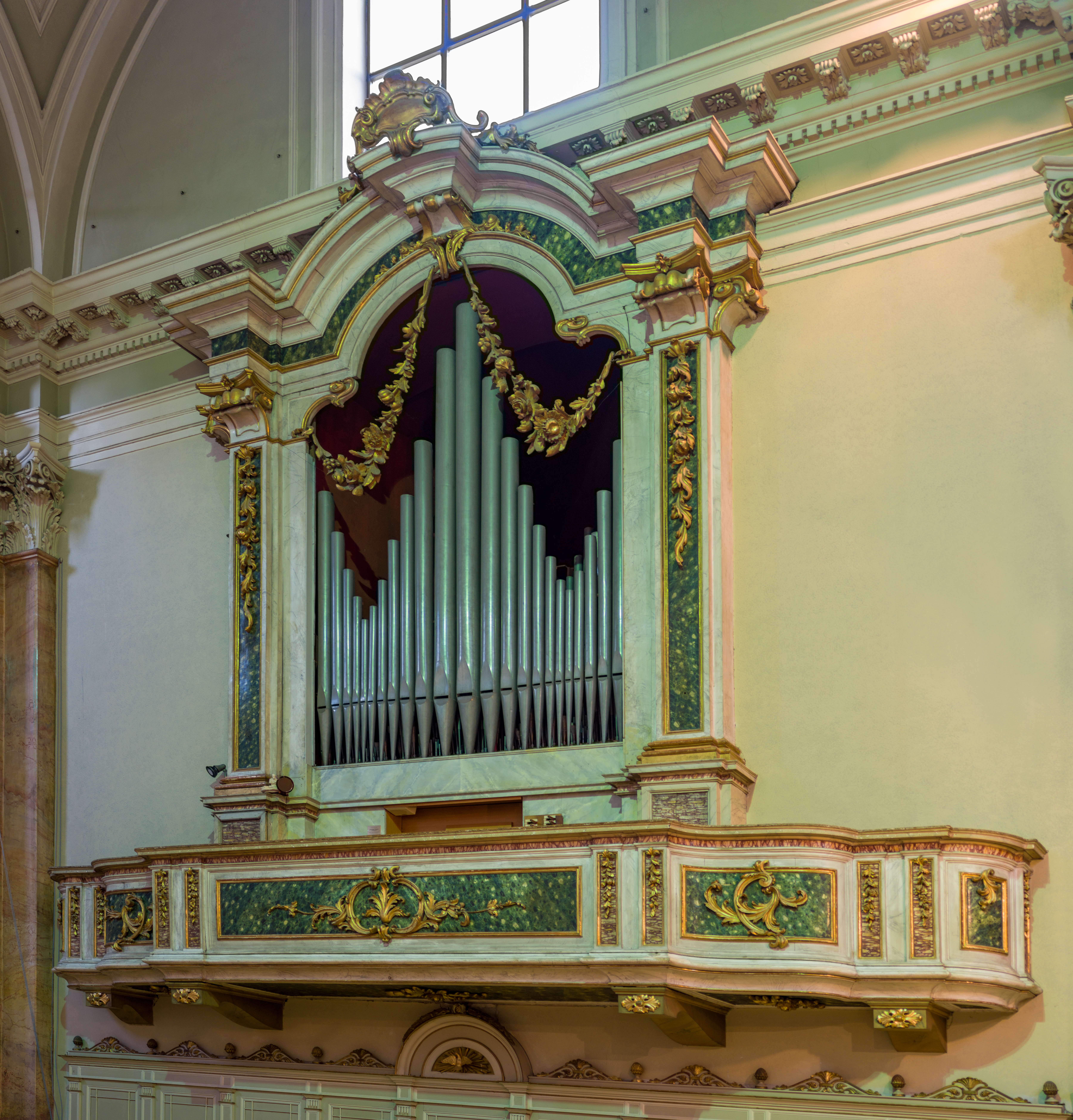 Organ in the Sant'Alessandro church in Brescia.